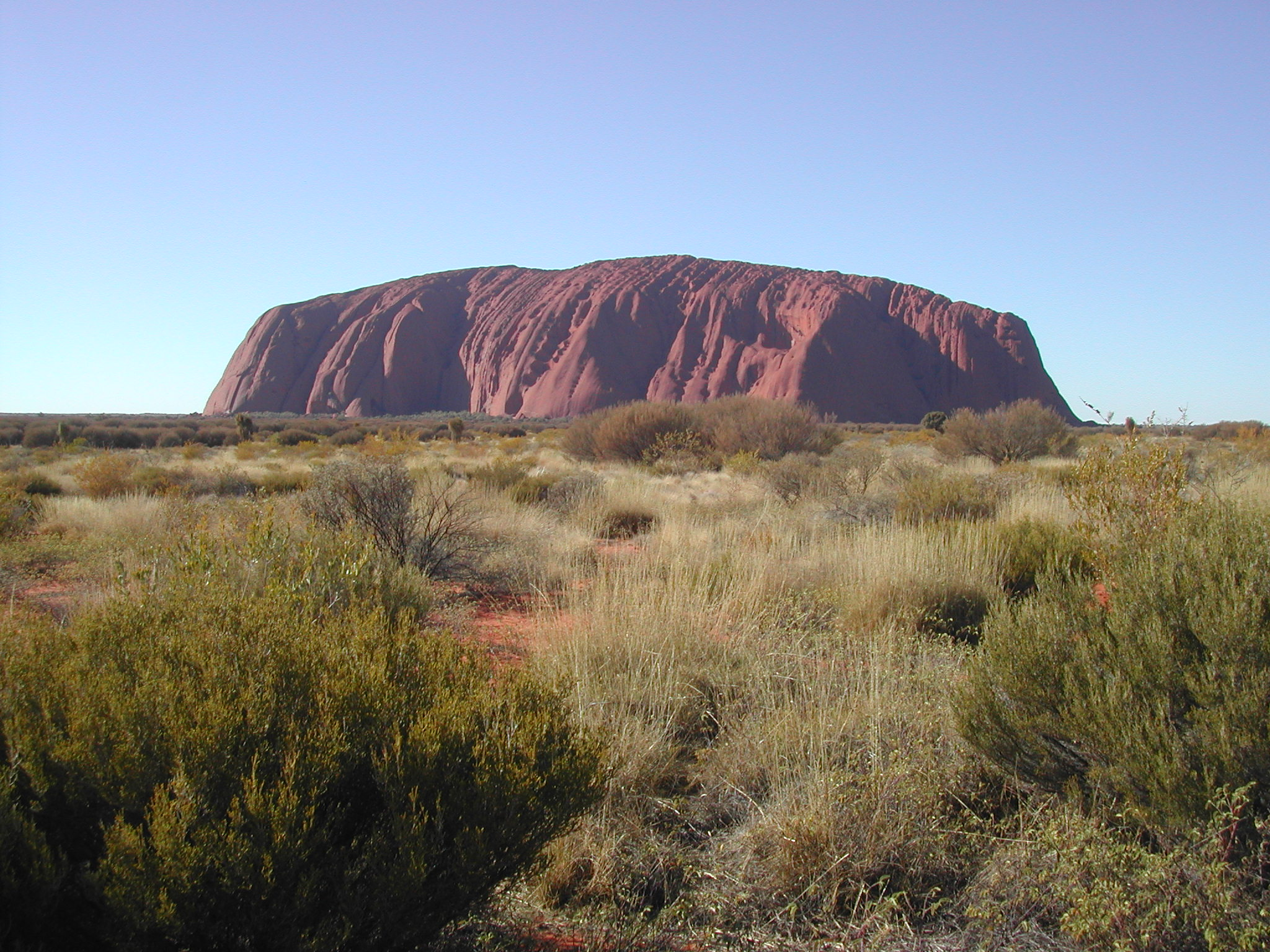 View of Uluru, Northern Territory, Australia, taken by the user.